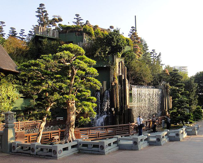 Nan Lian Restaurant